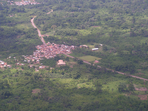 village on a road in the near of Tarkwa, Ghana